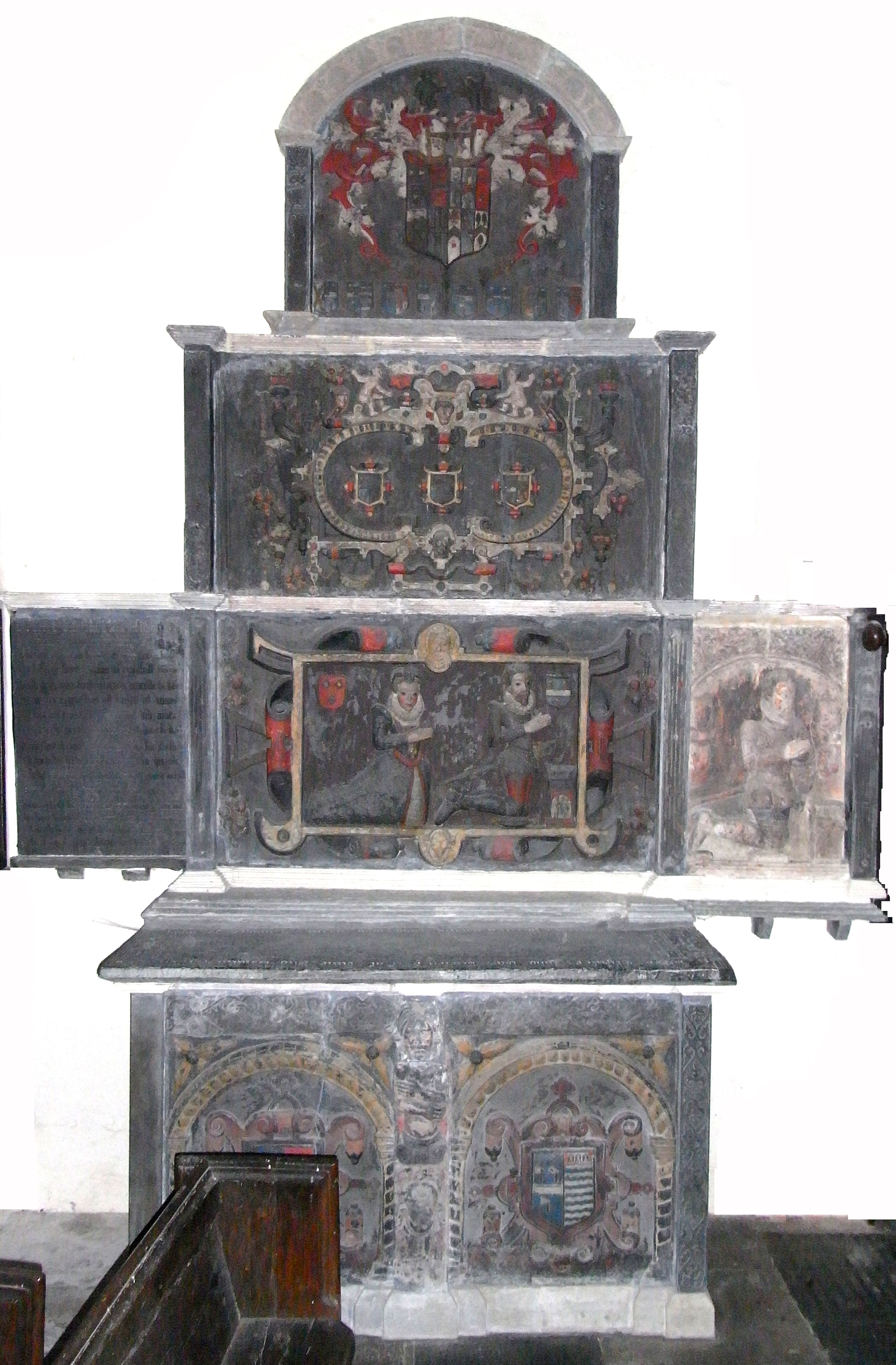 Monument to John Wrey (d.1597) of Trebeigh, St Ive, Cornwall. The monument was moved from St Ive Church to its present position against the east wall of the nort transept of St Peter's Church, Tawstock, Devon, in 1924 by Sir Philip Bourchier Sherard Wrey, 12th Baronet (1858-1936), of Tawstock Court.(Pevsner, Nikolaus & Cherry, Bridget, The Buildings of England: Devon, London, 2004, p.790)